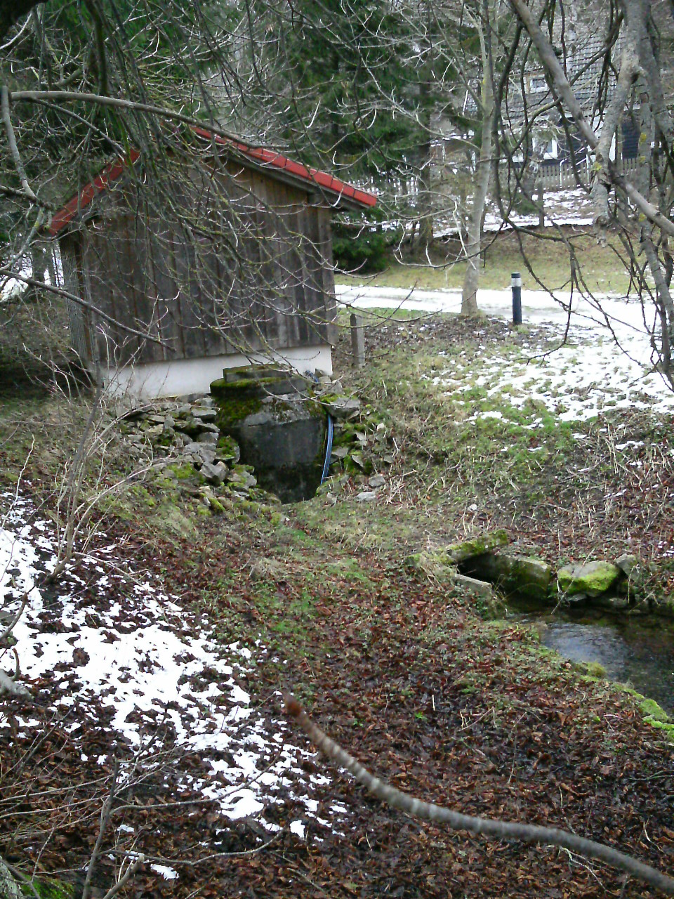 The spring Eggeroeder Brunnen in the Harz-mountains